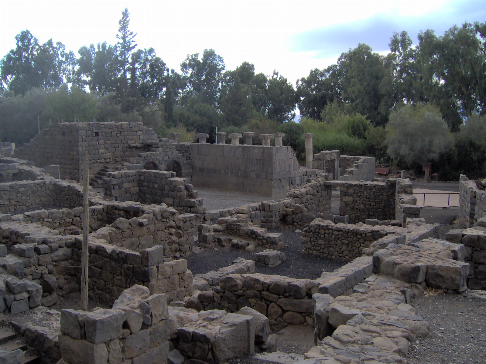 Ancient Jewish Qisrin village in the Golan.